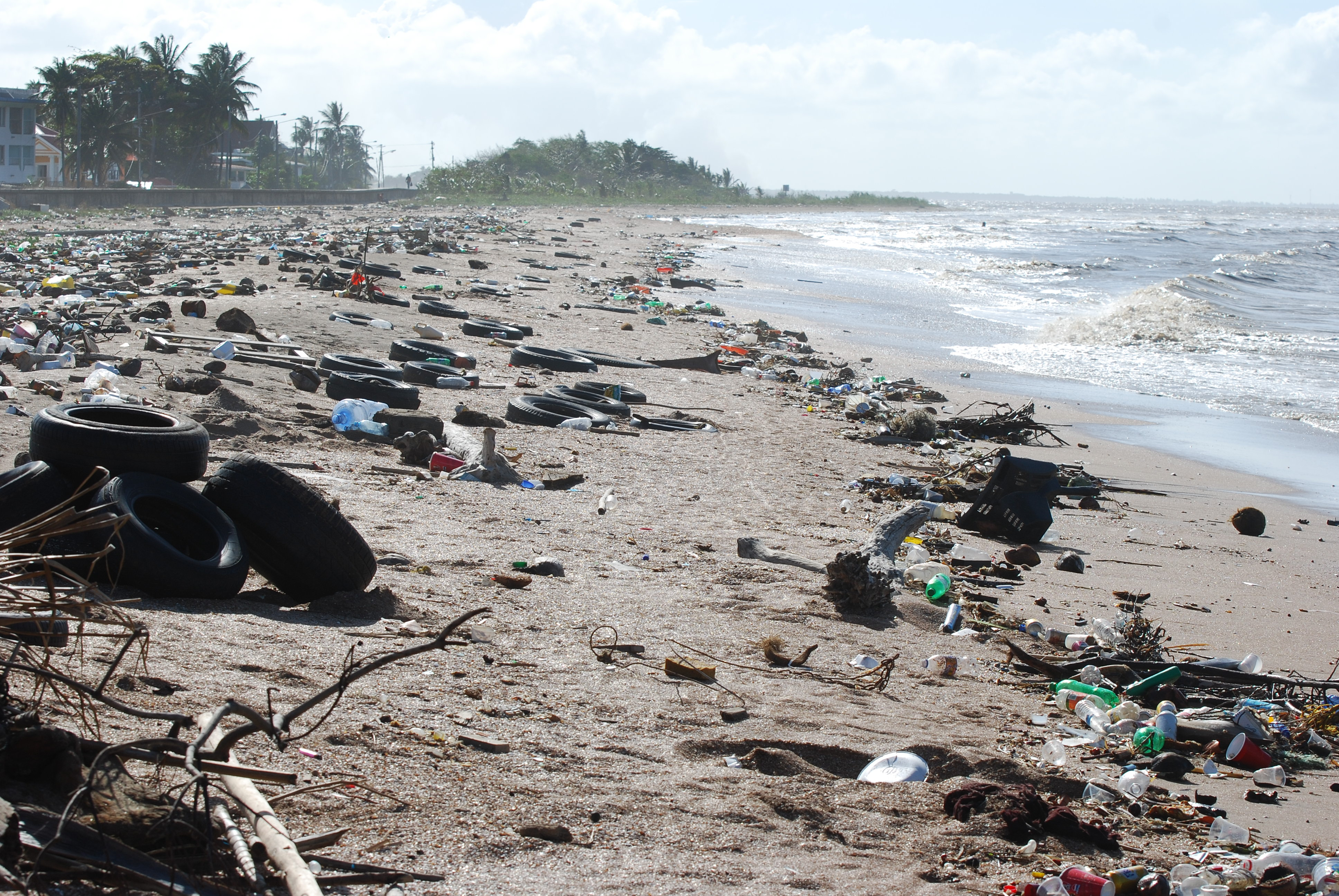 Showing the litter problem on the coast of Guyana.